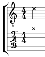 dead note in standard notation and guitar tablature